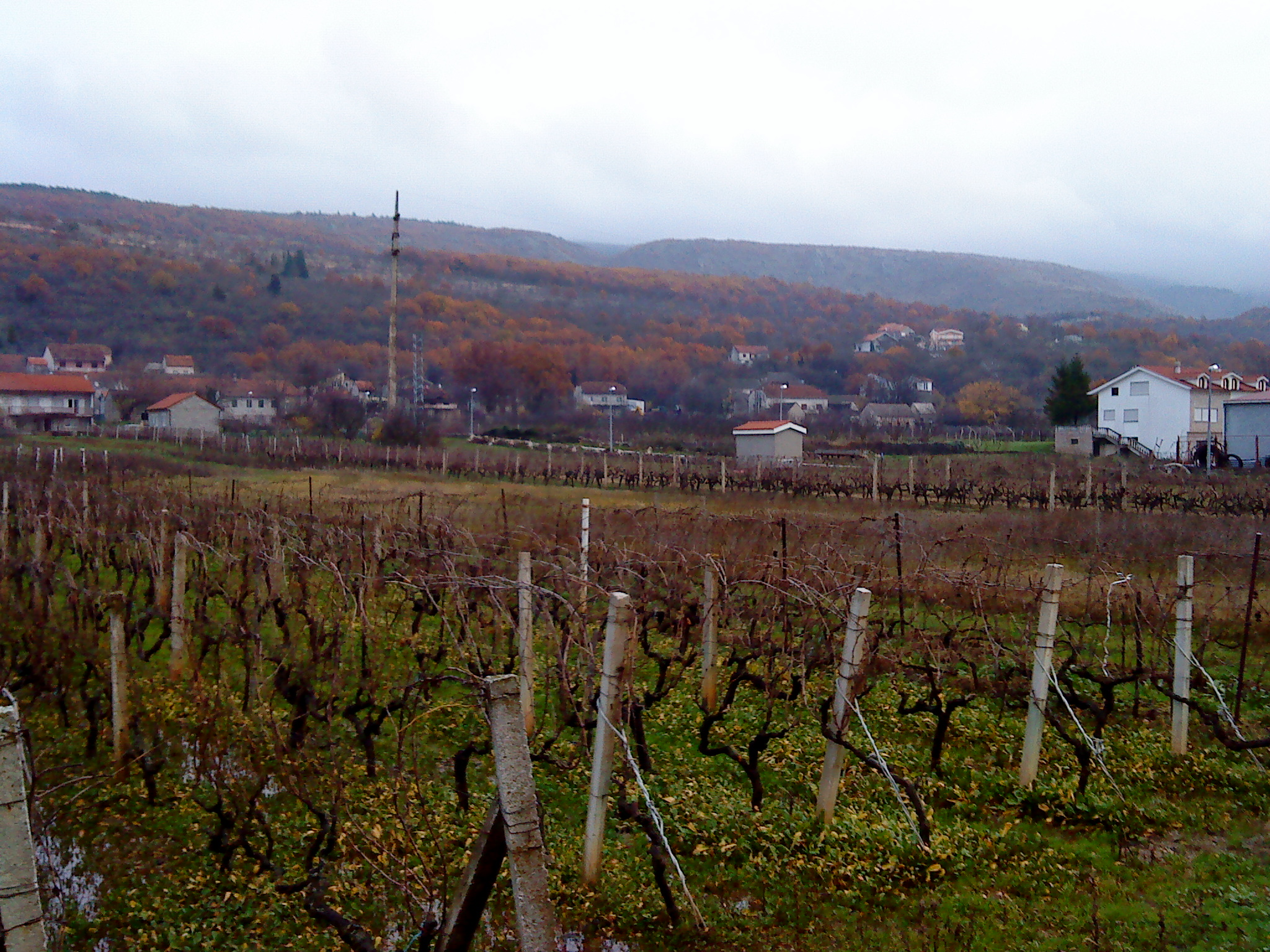 Vinjani Donji, Imotski